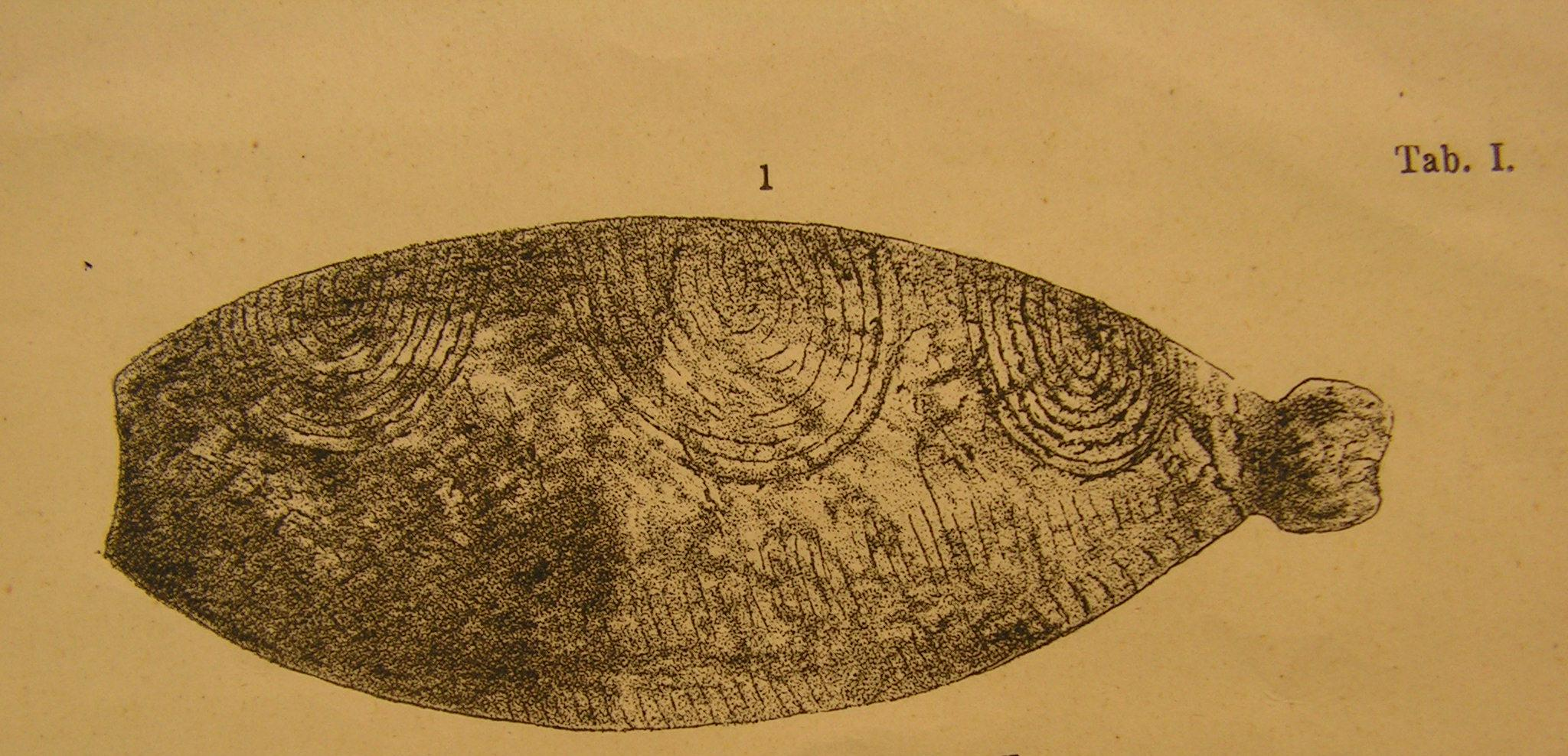 Paleolithic drop with ornametal decoration, Předmosti near Přerov, Czech Republic